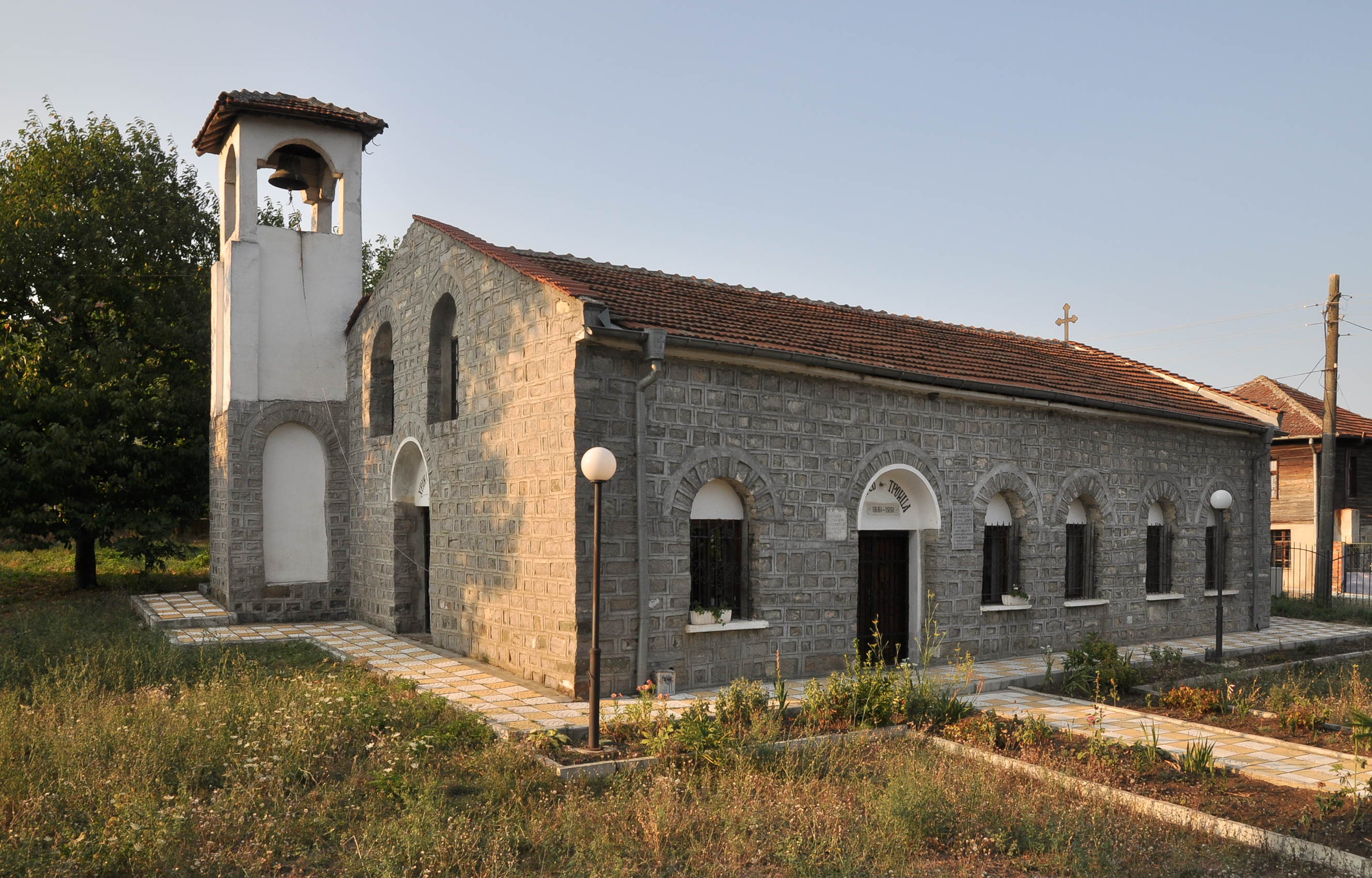 Holy Trinity church in Novo Panicharevo village, Burgas Province.